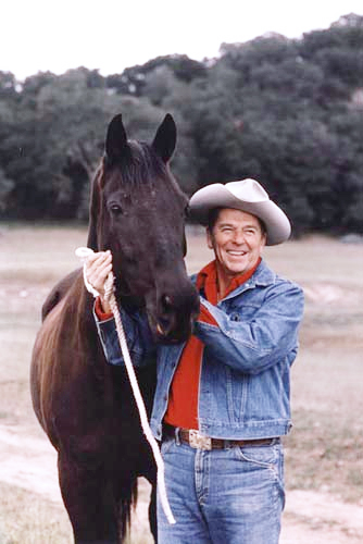 Ronald Reagan with his Thoroughbred horse "Little Man" at Rancho Del Cielo February, 1977